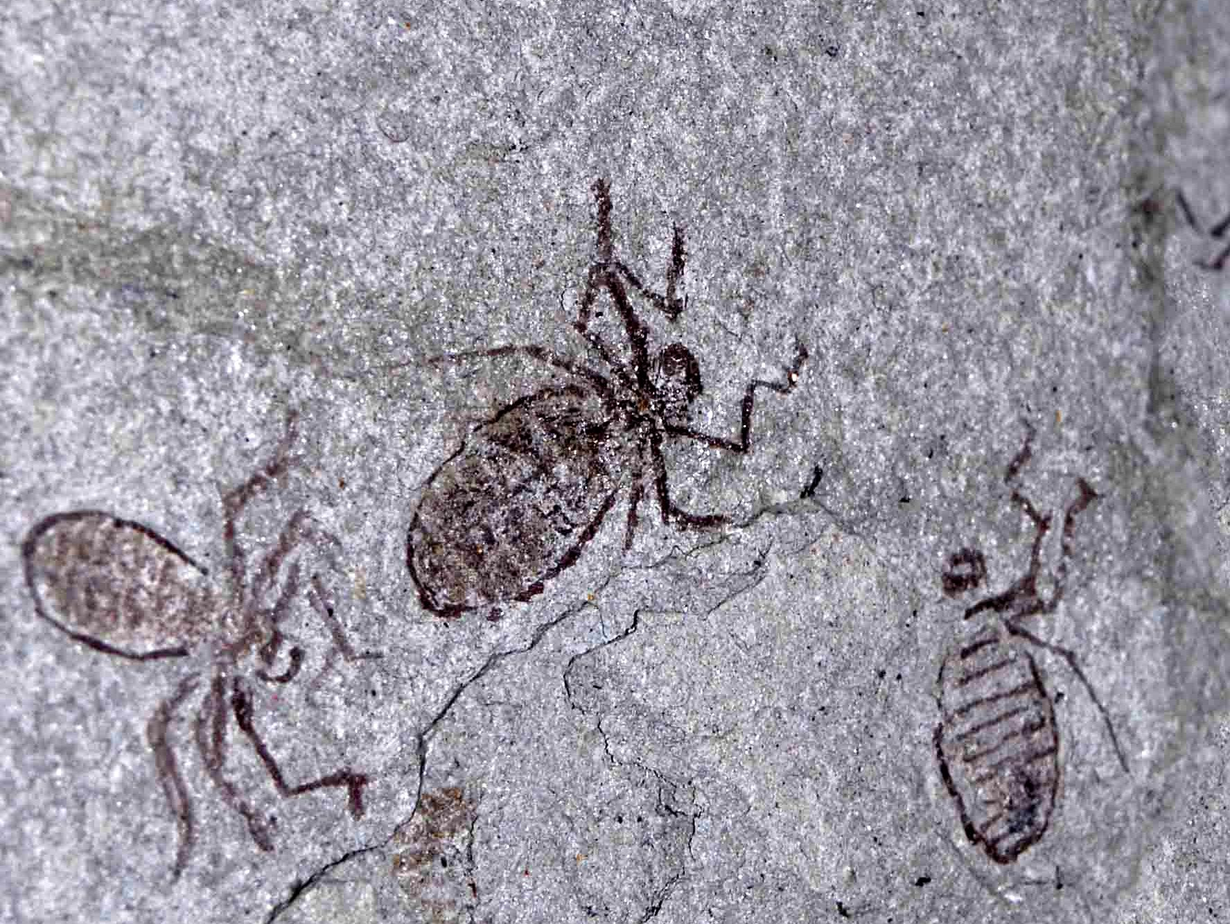 Fossil larvae of Libellula doris from France